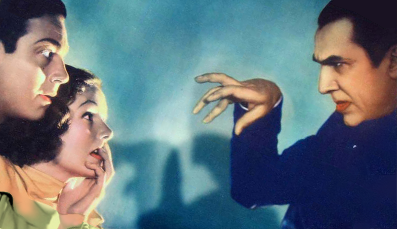 Cropped and edited lobby card featuring Bela Lugosi, Elizabeth Allan and Henry Wadsworth in Mark of the Vampire (MGM, 1935).